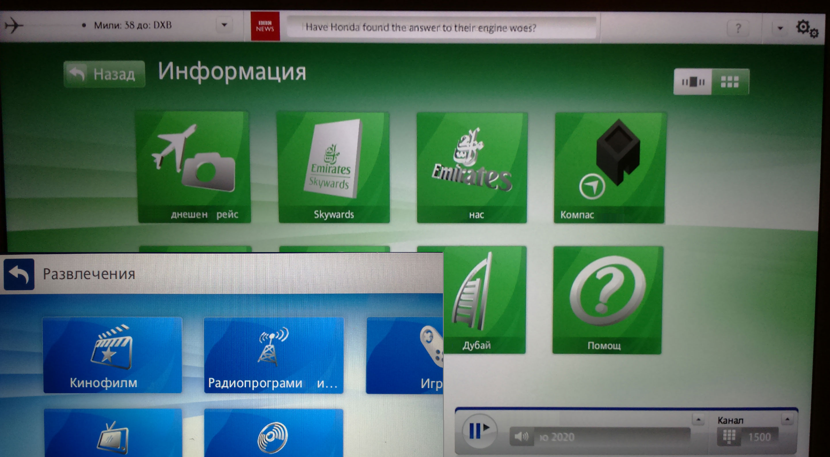 Emirates IFE in Bulgarian